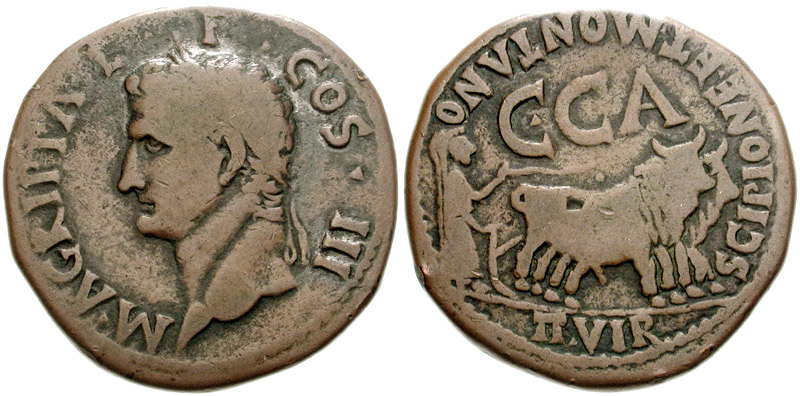 Spain, Terraconensis. Caesaraugusta. Marcus Vipsanius Agrippa. Died AD 12. Æ 29mm (13.40 g). Scipio and Montanus, duoviri. Struck under Gaius Caligula, AD 37-41. M AGRIPPA L F COS III Head left, wearing rostral crown SCIPIONE ET MONTANO Priest plowing with yoked oxen right. C • CA in field. IIVIR in exergue RPC I 381. Fine, even brown patina.